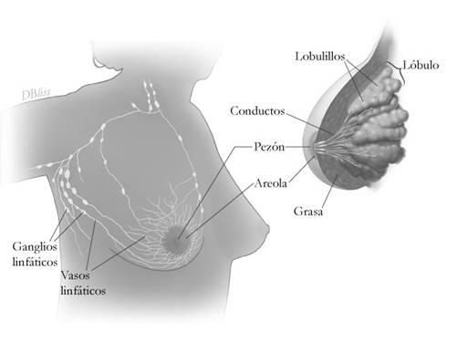 Title Breast Anatomy - Spanish Description Anatomía mamaria; obsérvese lóbulos, lobulillos, conductos, aréola, pezón, grasa, ganglios linfáticos y vasos linfáticos Anatomía mamaria, muestra los ganglios linfáticos y vasos linfáticos. Topics/Categories Anatomy -- Breast Type B&W, Medical Illustration Source National Cancer Institute